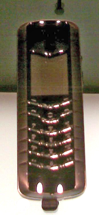 A photo of a Vertu Signature mobile phone, taken in a Vertu store in London, United Kingdom. This modal costs GBP 6000!